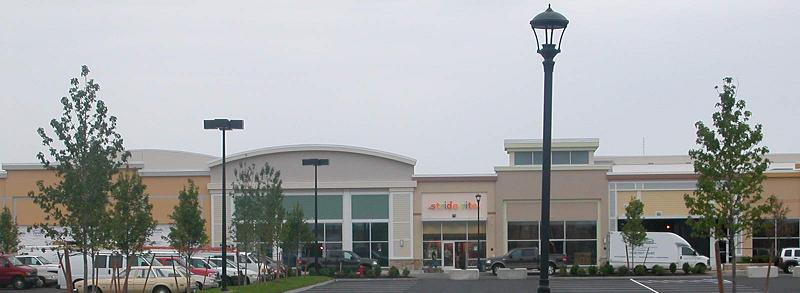 Colony Place in Plymouth, Massachusetts